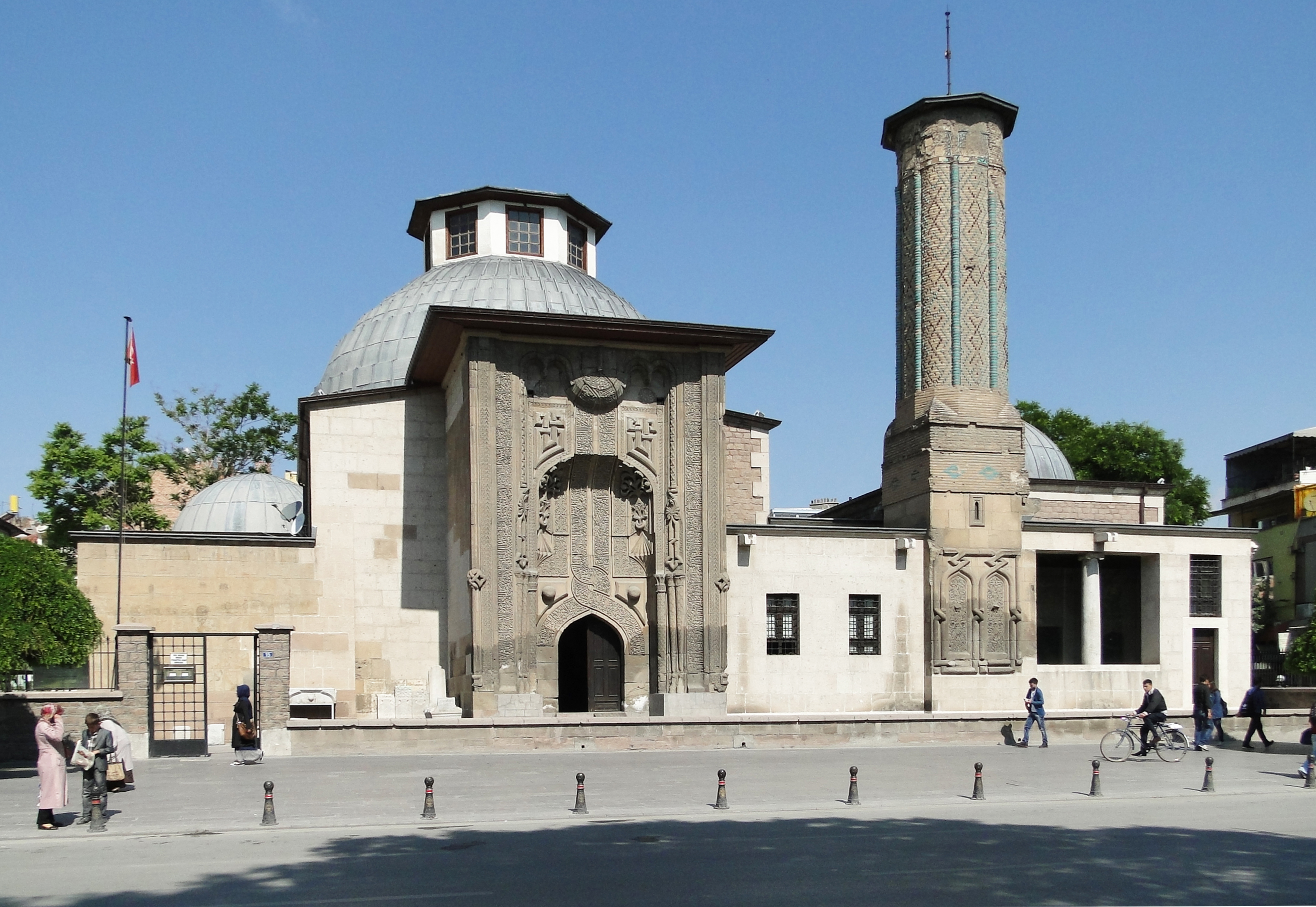 Ince Minareli Medrese, Konya, Turkey